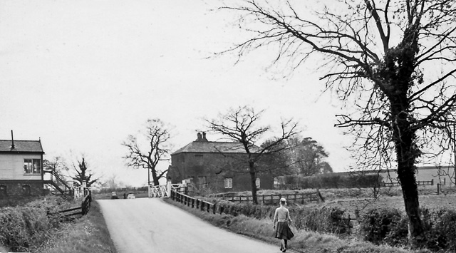 Billing Station (remains). View southward over level-crossing; Northampton - Wellingborough - Peterborough secondary main line: Wellingborough (left), Northampton (right), closed 4/5/64. (Billing station had been closed to passengers 6/10/52). (My wife is striding ahead).